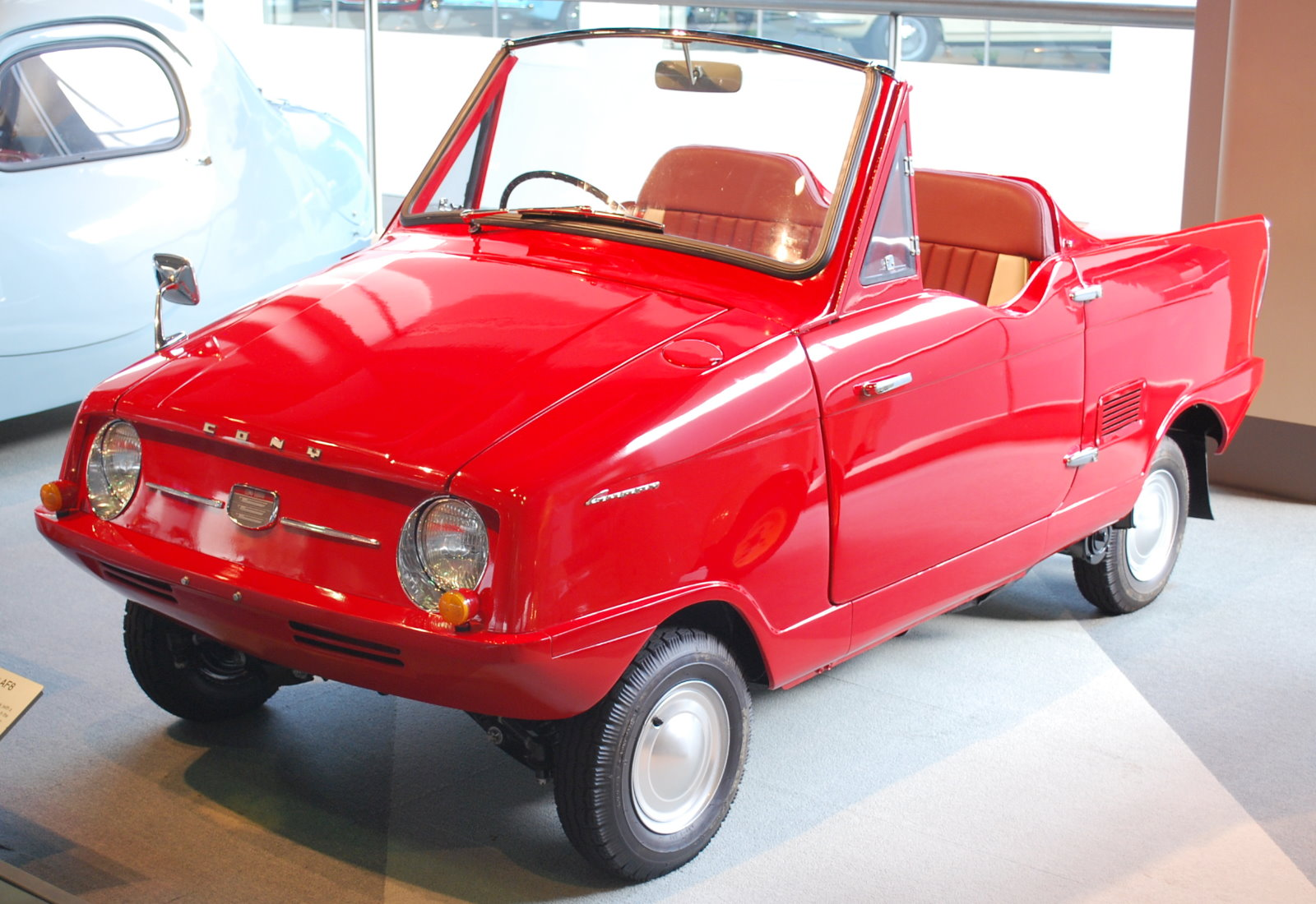 Cony Guppy Sport Model AF8 (manufactured by Aichi Machine Industry Co., Ltd.)